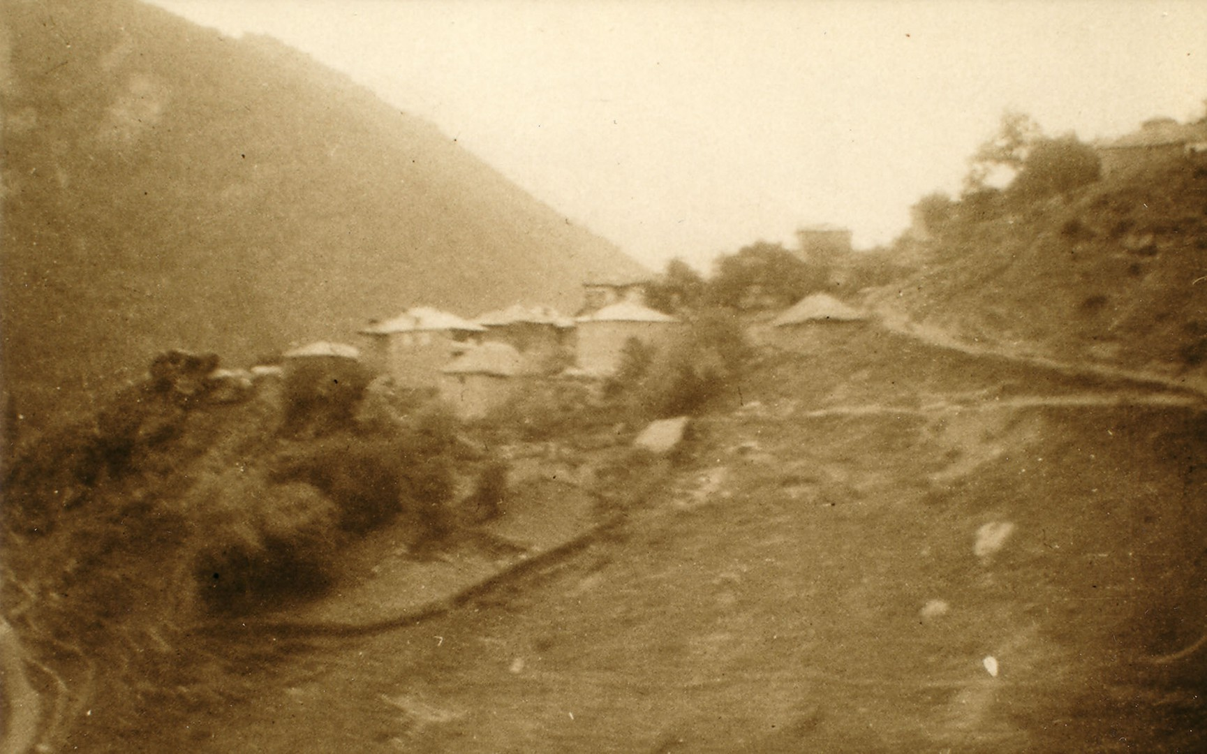 The village of Vešala situated in the Shar mountains between Tetovo and Prizren, 1903.